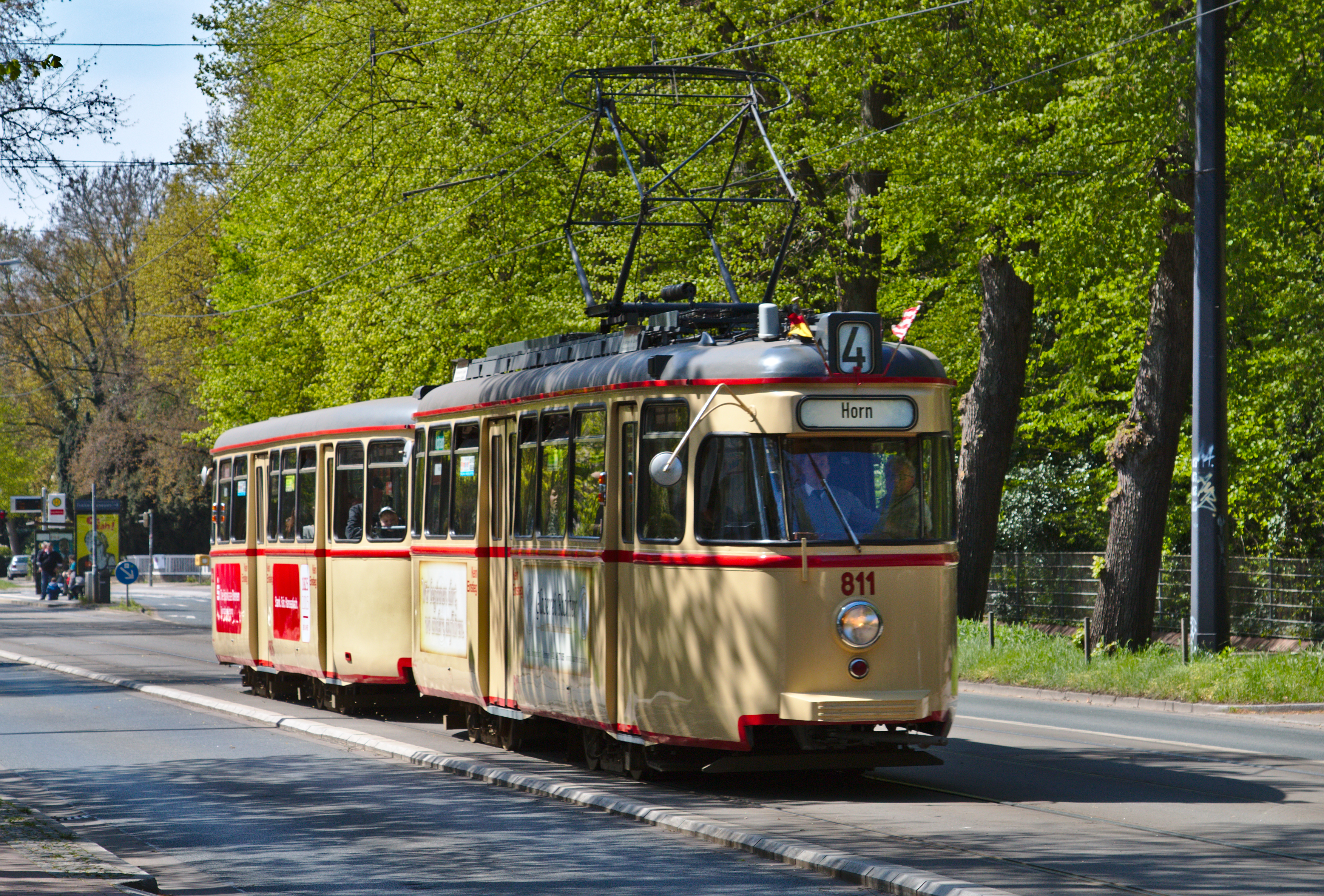 A tram built by Hansa in 1954 (motor car T4b #811 + trailer B4b #1806) has just left Focke-Museum tram stop in Schwachhauser Heerstraße street on a special service on the regular route 4 (Domsheide → Horner Mühle) on the 125th anniversary of the electrification of the Bremen tram system.